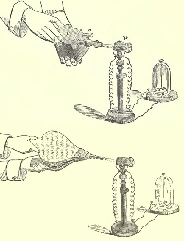 The illustration is taken from John Tyndall's introductory book on the physics of heat, Heat Considered as a Mode of Motion year 1869 edition. The apparatus on the right is a thermopile, which is a sensitive device for measuring temperature changes. In the upper part of the illustration, the box on the left is a locked container of compressed air that has been let stand for a while. When the valve on this box is opened, the compressed air rushes out of the box and moves towards the face of the thermopile. This causes the temperature at the face of the thermopile to decrease. In the lower half of the illustration, the object on the left is a bellows. The motion of the bellows takes in air, compresses it, and pushes the compressed air out through a nozzle towards the face of the thermopile. This causes the temperature at the face of the thermopile to increase. Discussed in the book on pages 42 to 47 and also page 28.